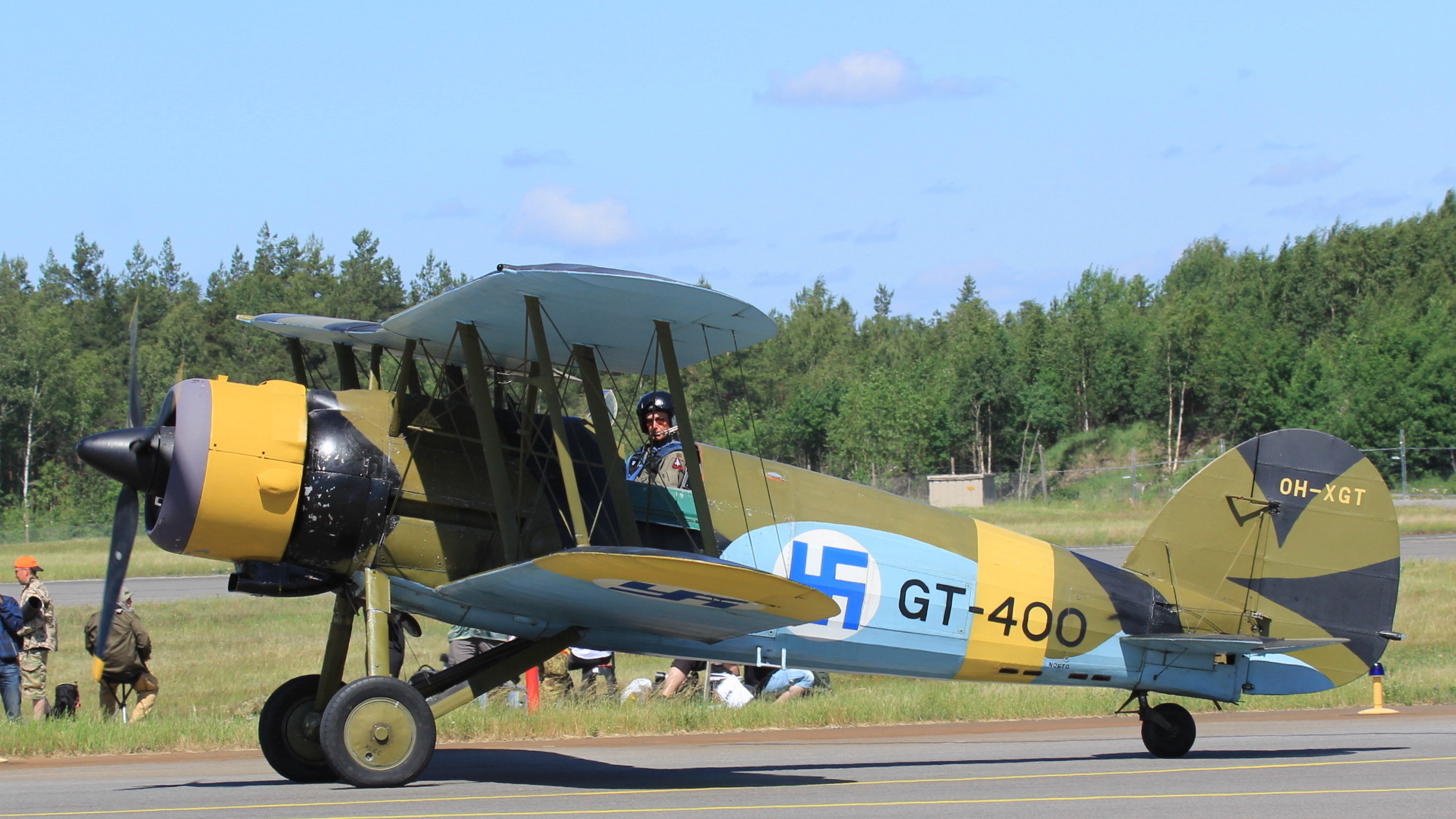 Gloster Gauntlet II, biplane fighter aircraft, Turku Airshow 2019, Turku, Finland. - Tail number OH-XGT, serial number GT-400. Pilot: Jyrki Laukkanen. - Just landed.